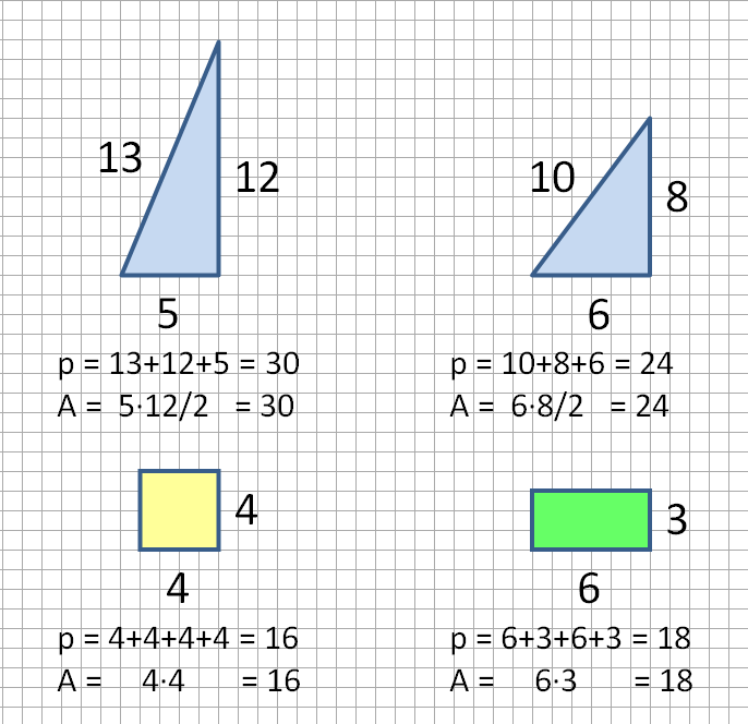 Equable shapes